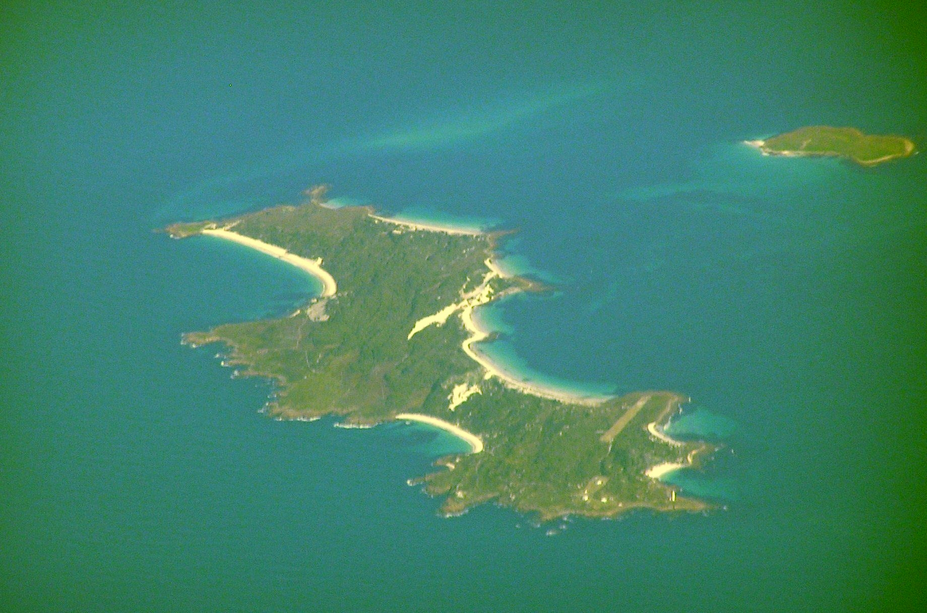 Aerial photo of Swan Island Tasmania Australia. Little Swan Island appears top right